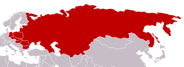 Map of the countries that took source in the Molotov Plan in 1947, which became COMECON in 1949.